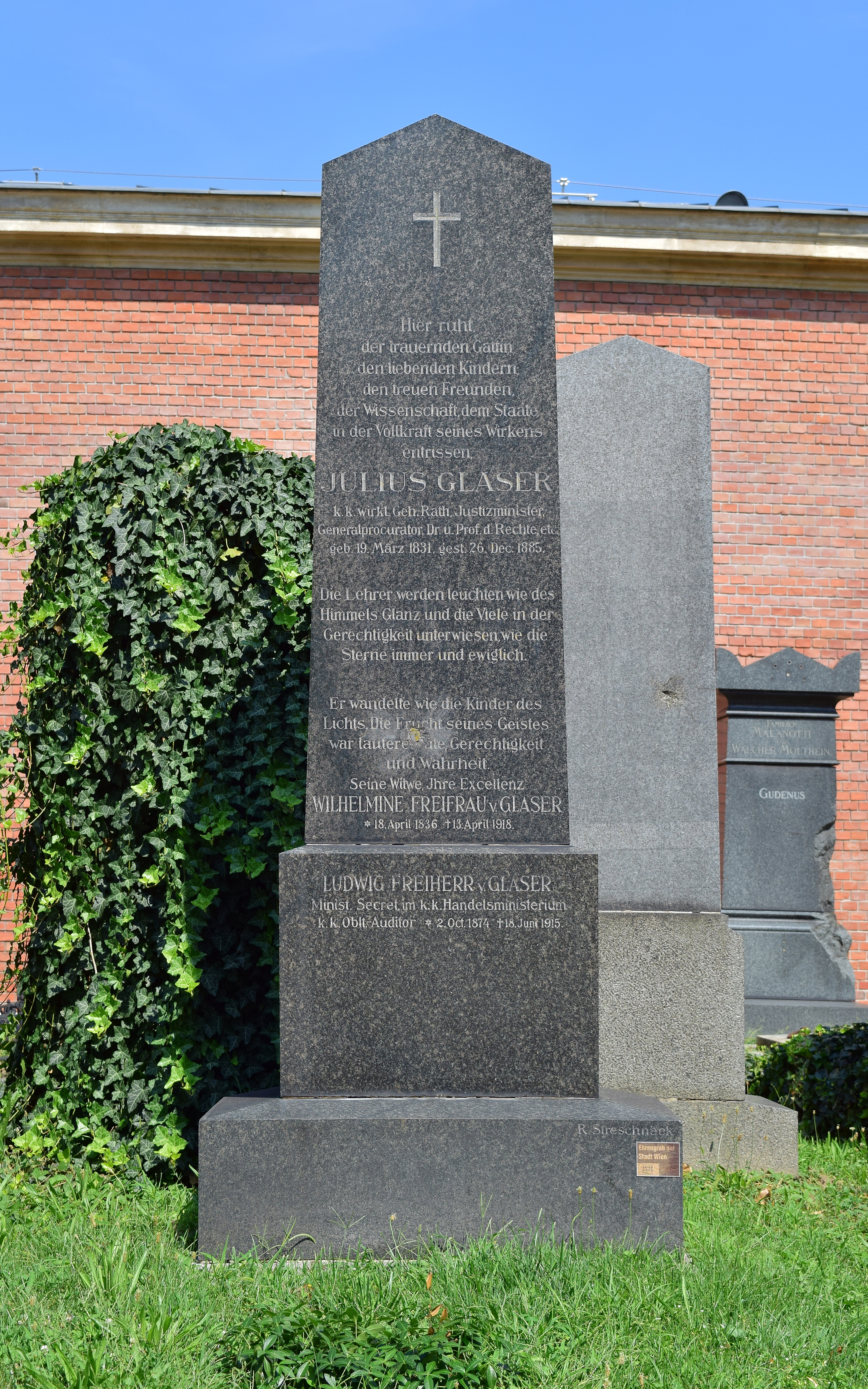 Grave of honor of Julius Glaser at the Wiener Zentralfriedhof